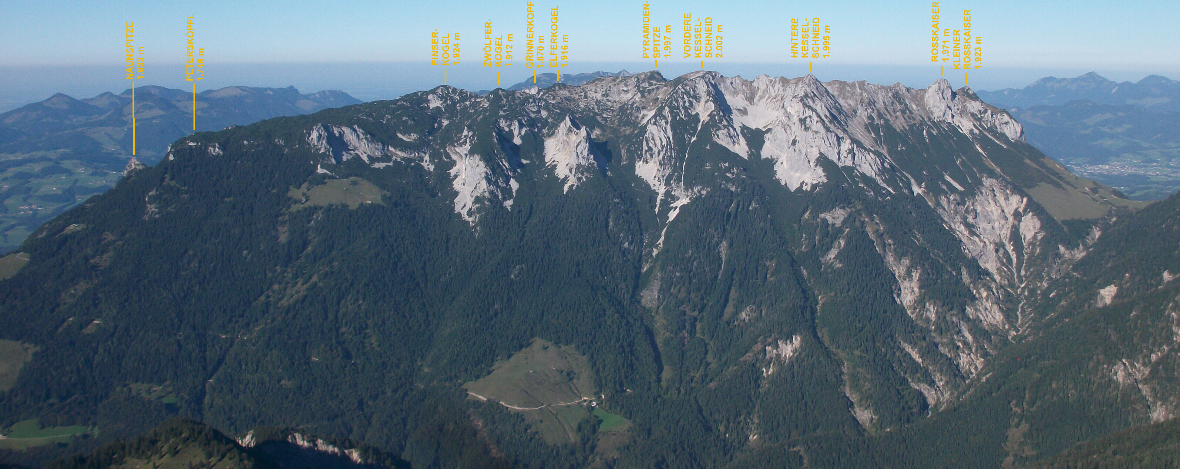 View of Zahmer Kaiser